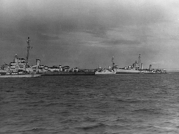 The U.S. Navy destroyer USS Glennon (DD-620), at right, after her stern was blown off by a mine, off Normandy, France, on 8 June 1944. The destroyer escort USS Rich (DE-695), a U.S. PT boat, a British motor launch, and a U.S. Auk-class minesweeper are standing by. Rich soon hit another mine, which also destroyed her stern, and was then sunk by a third mine. Glennon was sunk by shore batteries two days later.